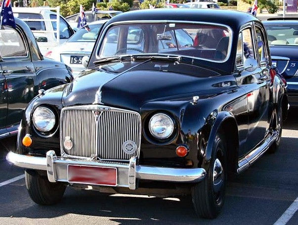 Rover 90 1955 (P4)